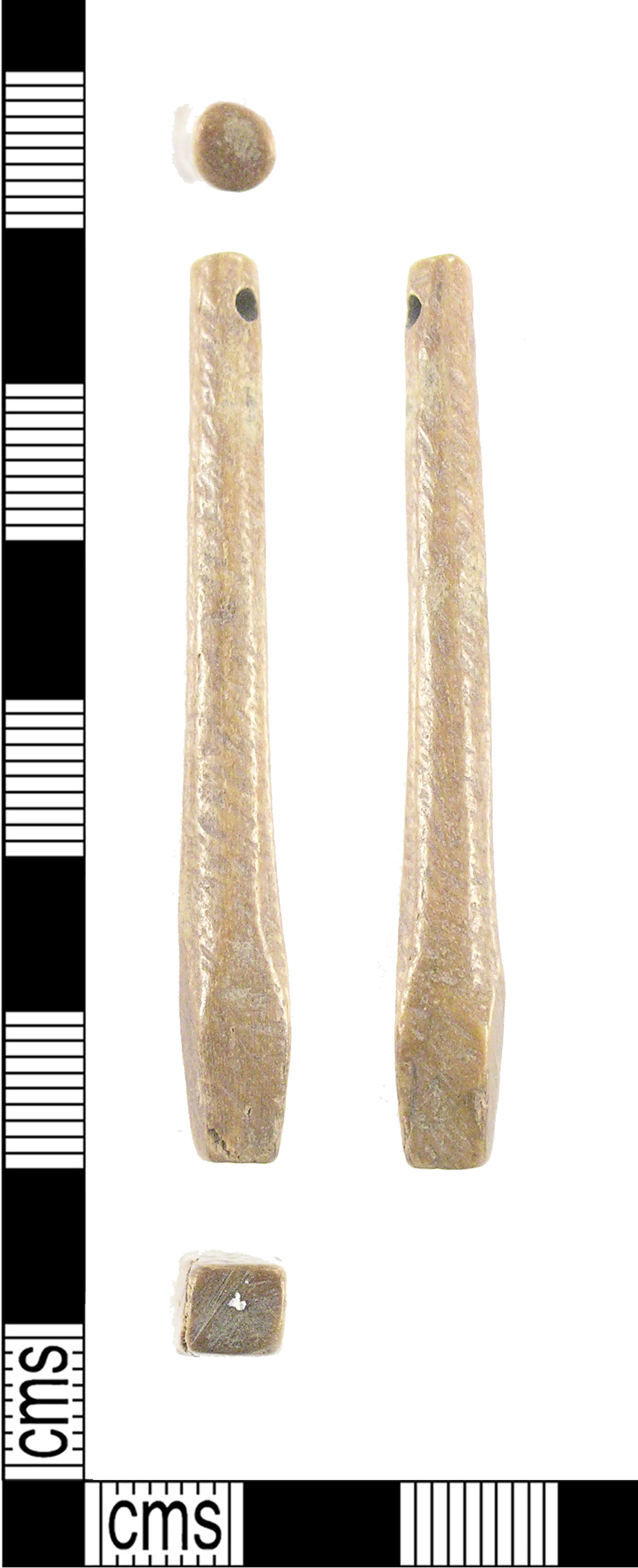 A Medieval tuning peg made from animal skeletal material, probably bone, probably dating 13th - 15th century. The tuning peg has a circular sectioned shank with a perforation at one end, through which the string would have passed. At the opposite end the cross-section changes to square approximately 10mm from the end. Similar tuning pegs are published in MacGregor (1985:147) and MacGregor, Mainman & Rogers (1999:1978) they note that a key would have fitted over the square end to tune instruments such as harps, lyres or fiddles. The published examples date from the late 12th century - the end of the 13th century (MacGregor 1985:147) and the examples excavated in York mostly came from mid-late 14th century contexts but the authors note that similar groups of pegs from other sites across the country tend to derive from the 13th - 15th centuries (MacGregor, Mainman & Rogers 199:1979). Dimensions: length: 55.98mm; width: 6.06mm; thickness: 5.97mm; diameter: 4.28mm; weight: 2.54g. Reference: MacGregor, A. 1985. Bone, Antler, Ivory and Horn. The Technology of Skeletal Materials since the Roman Period. Croom Helm, London and Sydney. MacGregor, A. Mainman, A. J. and Rogers, N. S. H. 1999. Bone, Antler, Ivory and Horn from Anglo-Scandinavian and Medieval York. Council for British Archaeology, York.